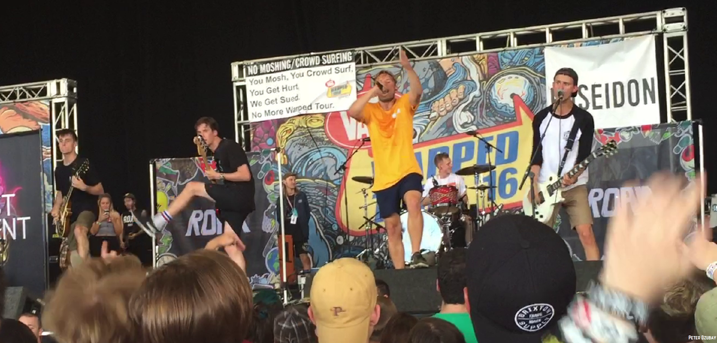 ROAM performing on the Vans Warped Tour in Hartford, CT on July 10, 2016